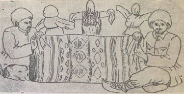 Kilimarası